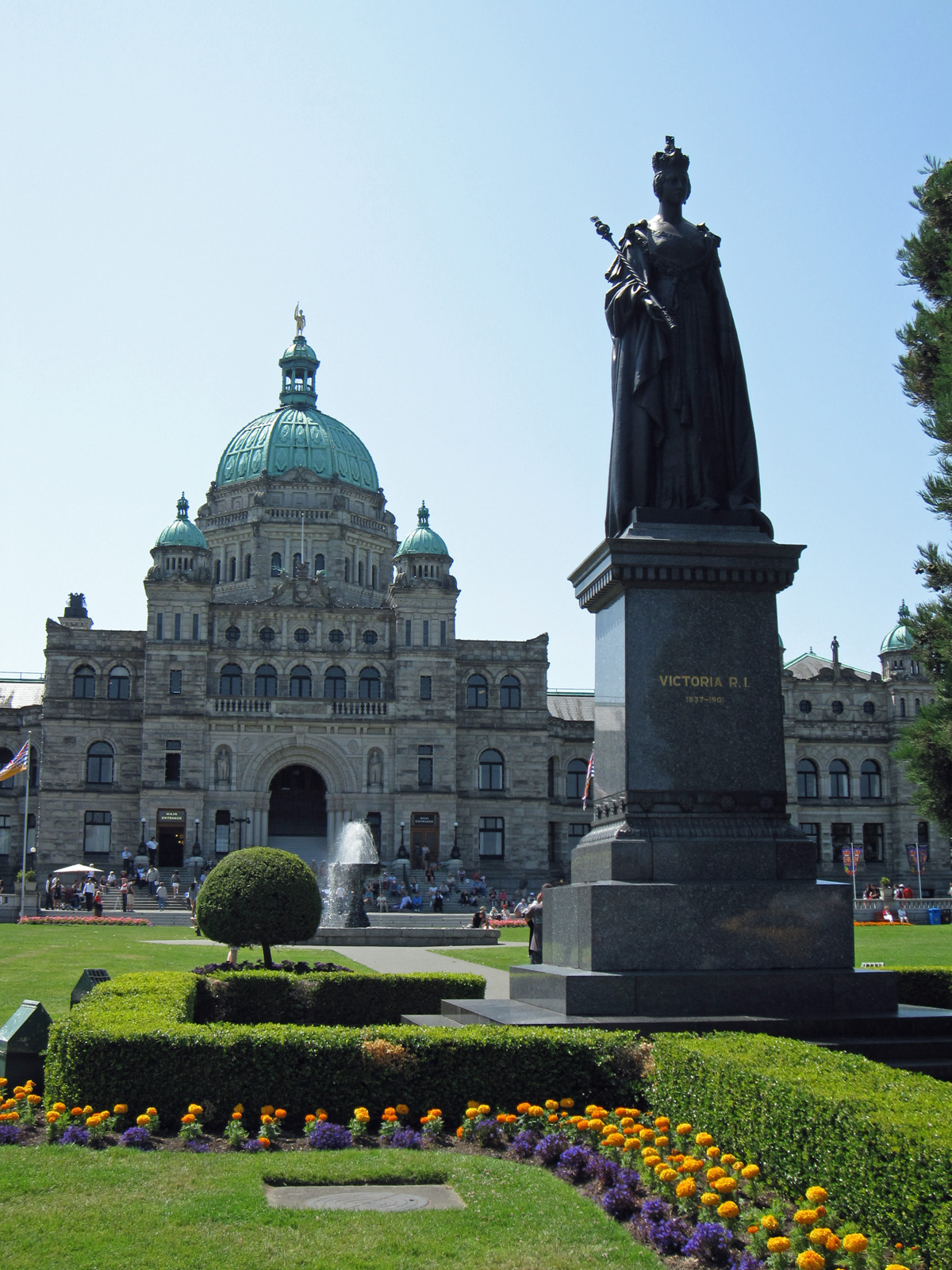 Victoria is the provincial capital of British Columbia, and this is the parliament building, open to the public for tours. Being on the lawn is already a very nice experience in itself though, thanks to the people watching and musicians. And here is the statue of Queen Victoria, who reigned over the British Empire for most of the 19th Century and was a notorious social conservative. Even today, Victorian social conservatism is a lingering nightmare in many former British colonies. Something else that's lingering today: the British monarch continues to be the ceremonial head of state for Canada and many other Commonwealth nations.